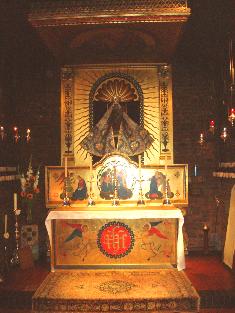 Category:Our Lady of Walsingham